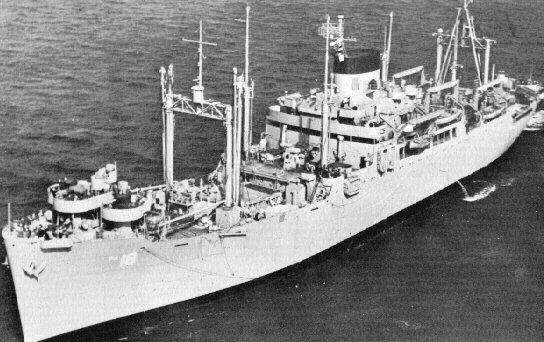 date and location unknown